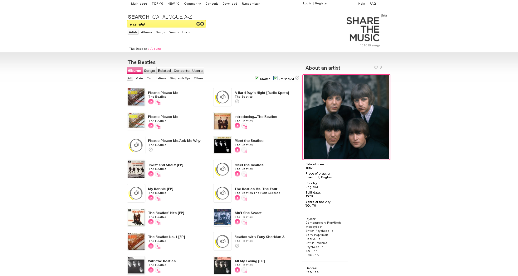 Beatles - the ShareTheMusic artist page.